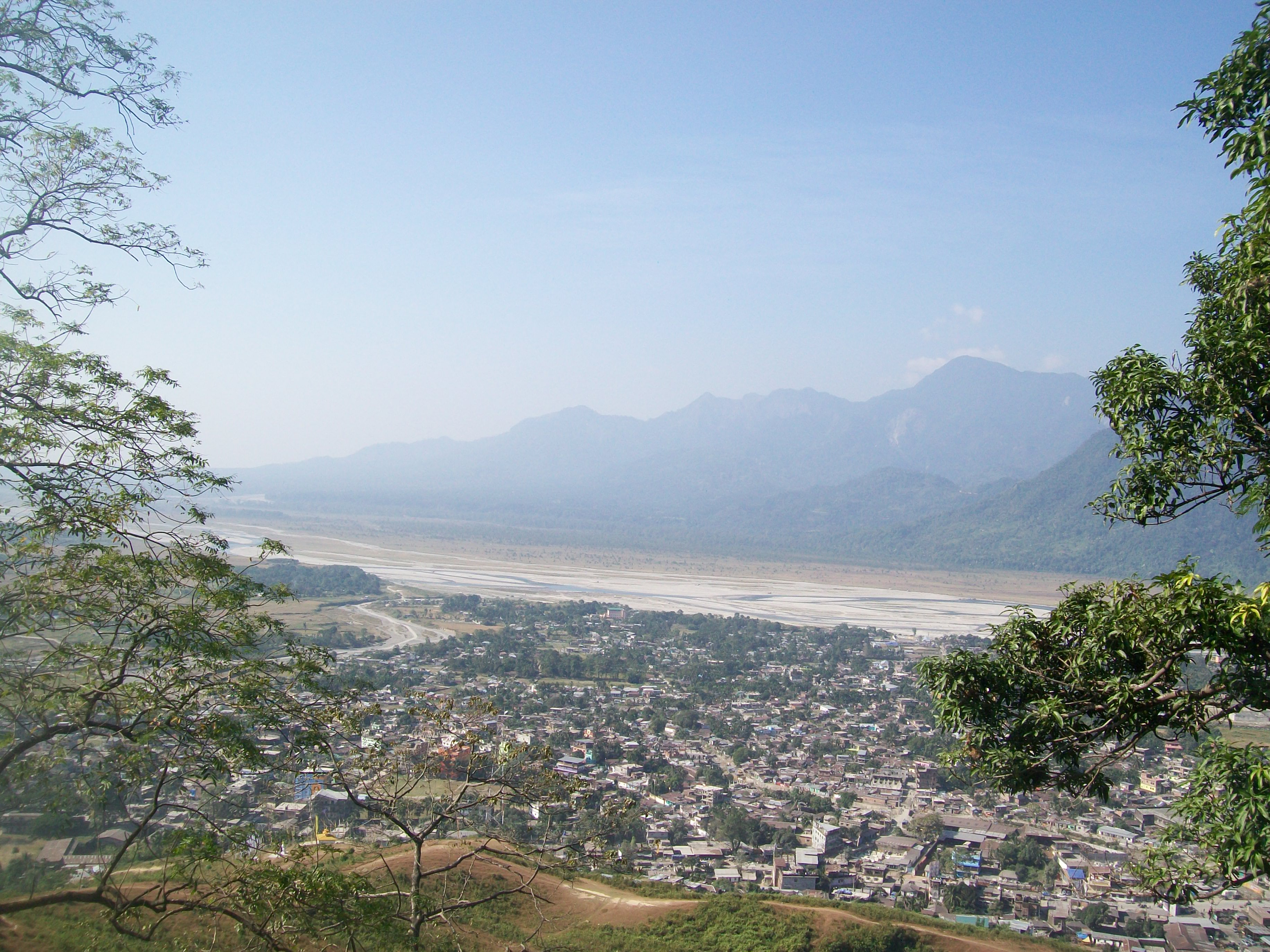 Phuntsholing town, Royal State of Bhutan